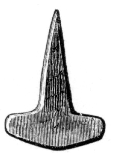 A hammer shaped amulet of silver, found in Fitjar, Hordaland, Norway. Thought to represent the hammer of Thor.